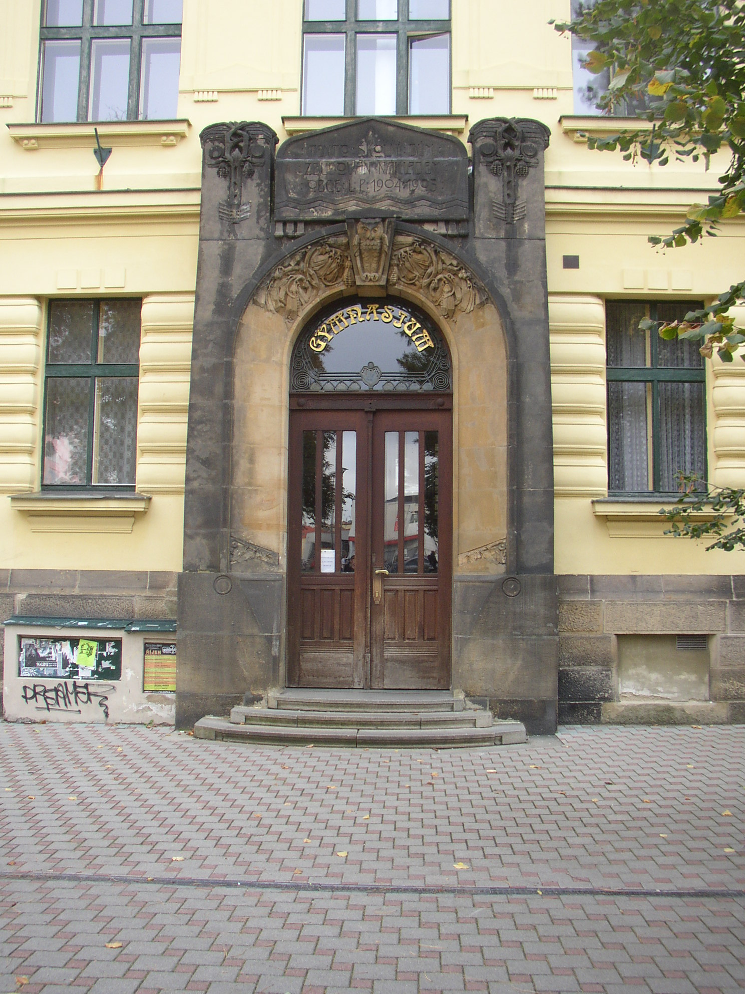 Grammar school in Kladno, Kladno District, Central Bohemian Region, Czech Republic. Main entrance.